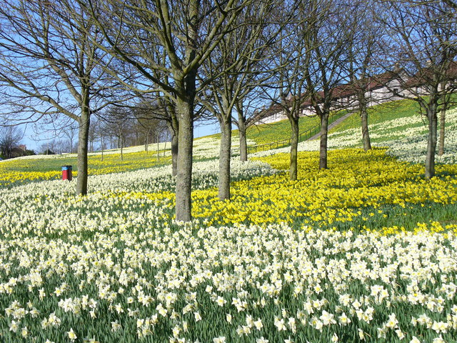 Sea of Daffodils at Kaimhill Huge bank of blooms on the hillside above Garthdee Road. Aberdeen regularly wins "Britain (and Scotland) in Bloom" competitions.